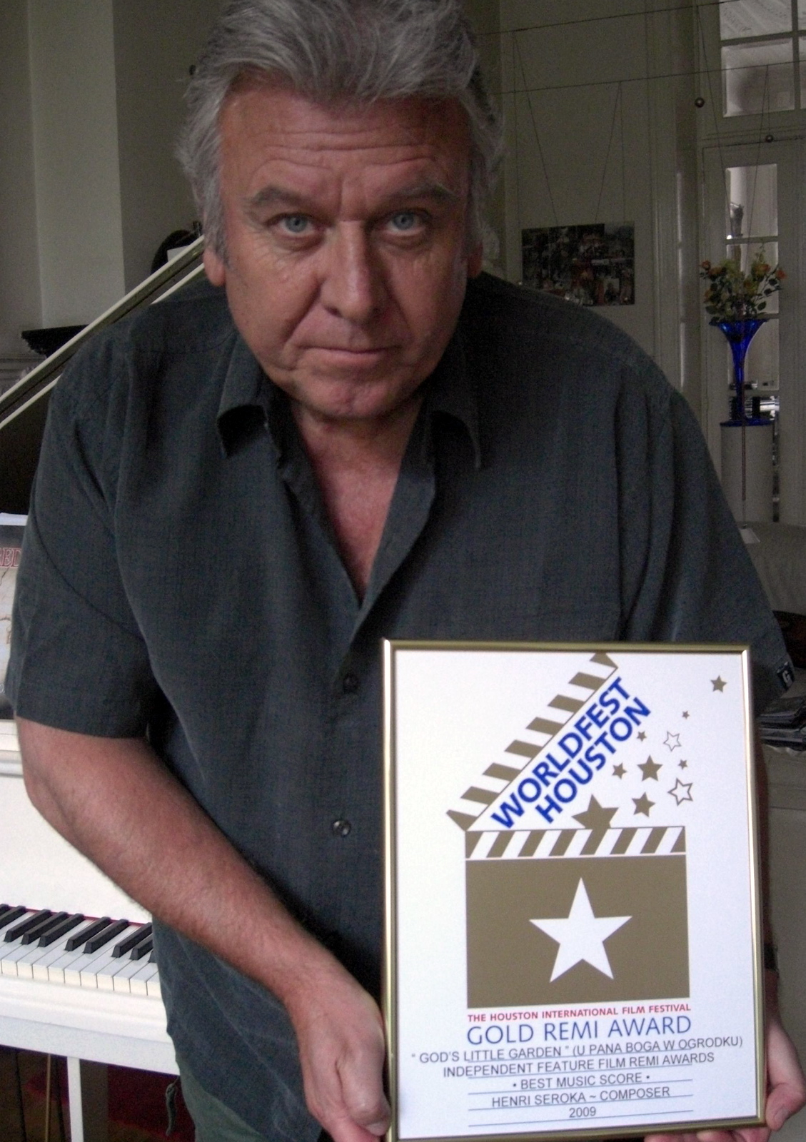 Belgian musician and composer Henri Seroka with his "Gold Remi Award"